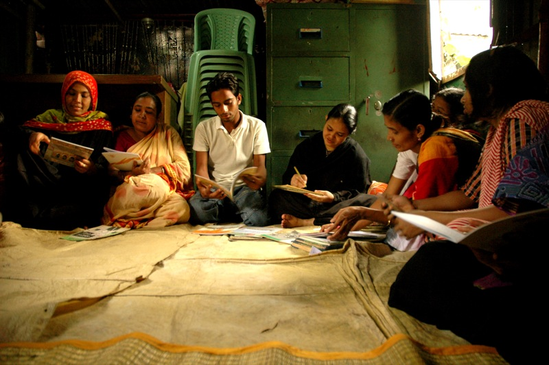 People sitting on mats on the floor, reading books. Original caption: at the group meeting I was at today, they returned and exchanged books from their box library...it was interesting to see what all consists of a 'library' here from an English major point of view. This is the People's Institution from the Begunbari slum...what is particularly special about this PI is that they have exceptional gender equality...though there is only one guy in this shot and so it doesn't look like it, the men are very involved in social justice in their community.